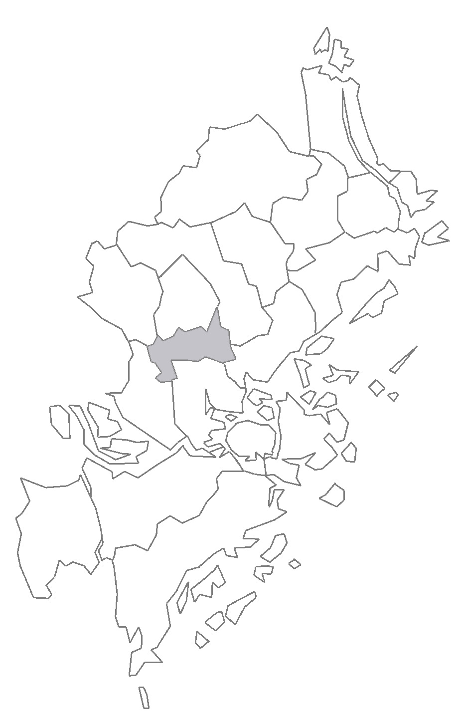 Map describing the location of Vallentuna Hundred in Stockholm County, Sweden.